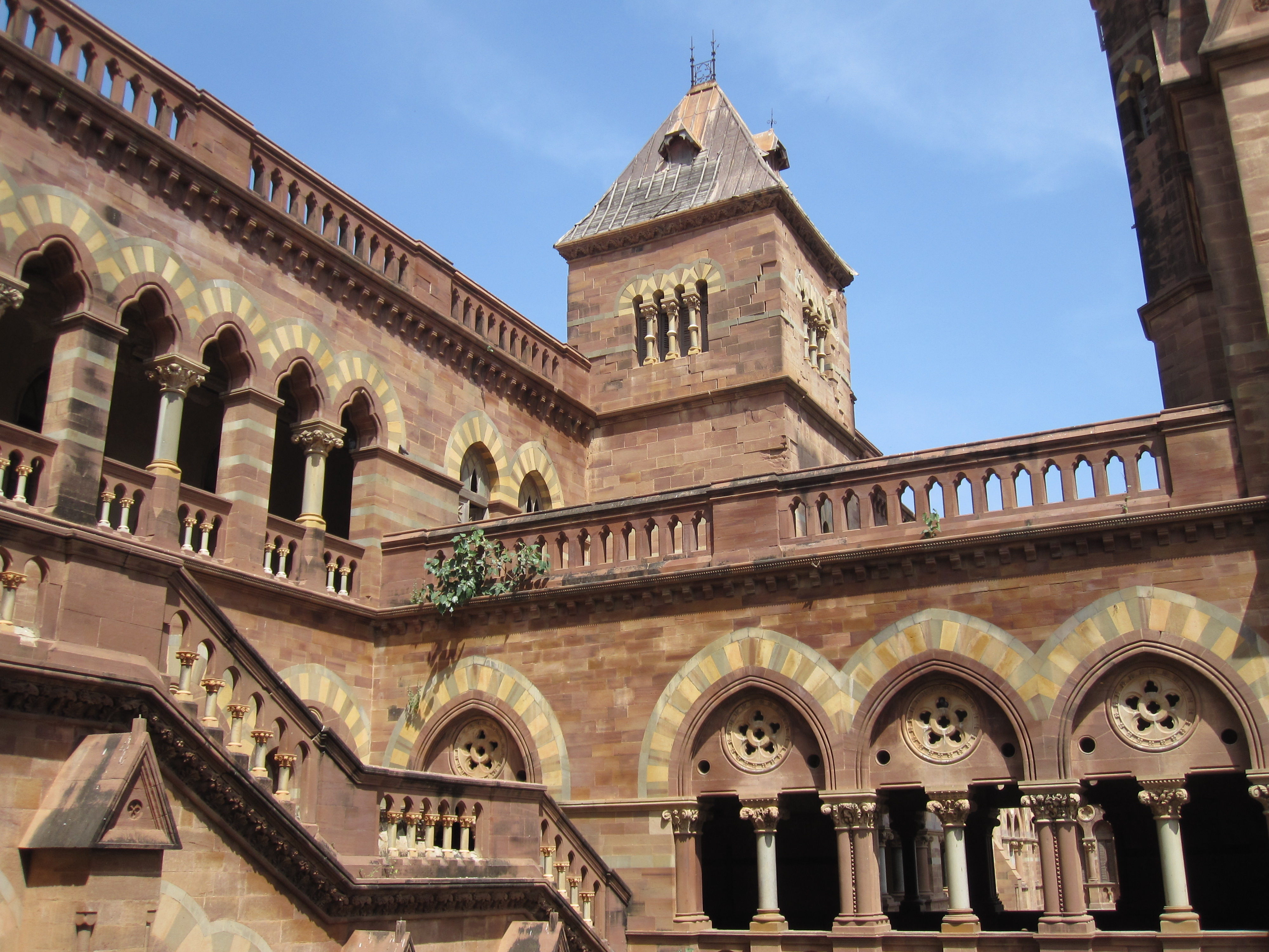 Interior courtyard, Prag Mahal